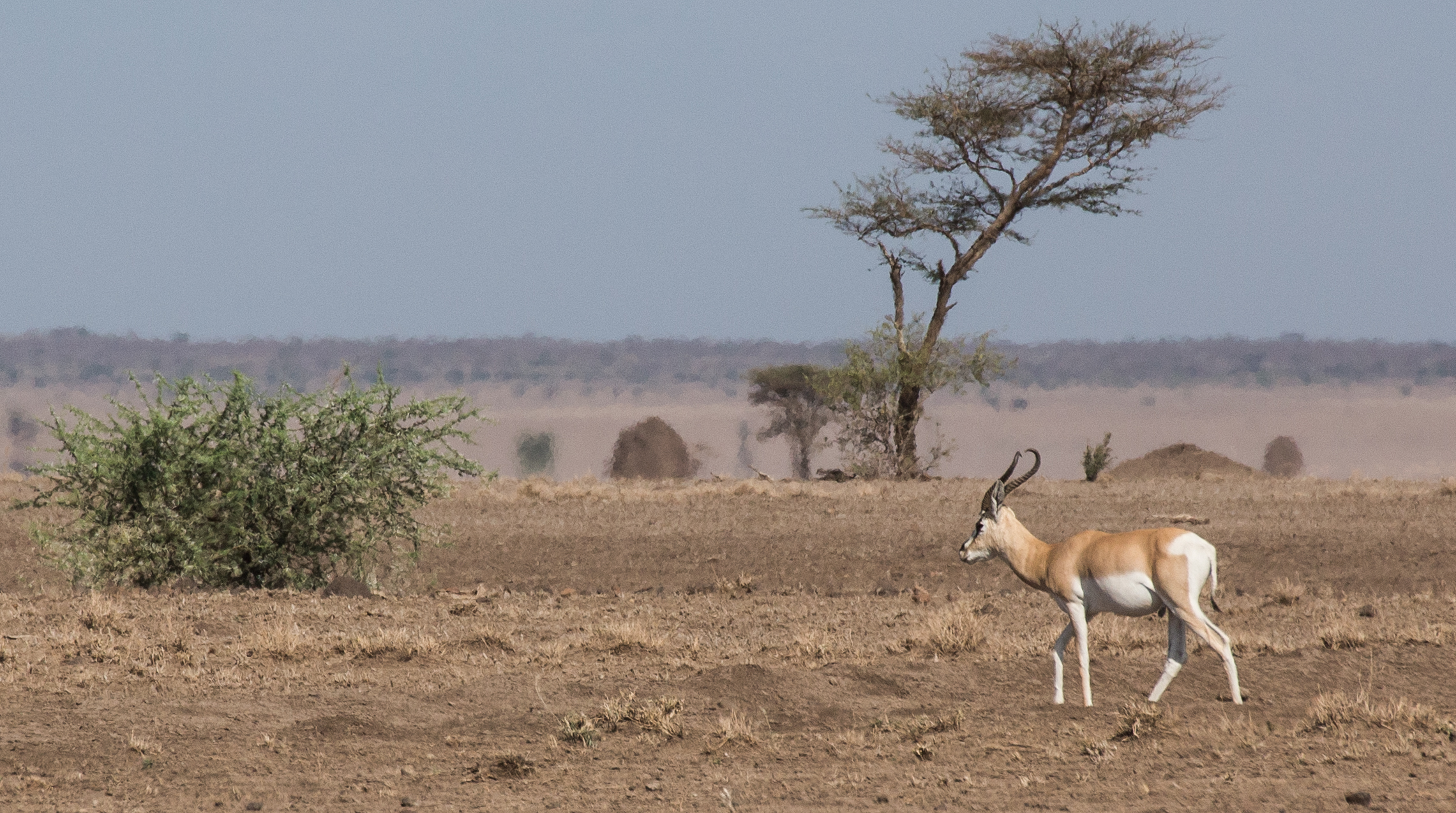 Wild Soemmerring's gazelle in Ethiopia